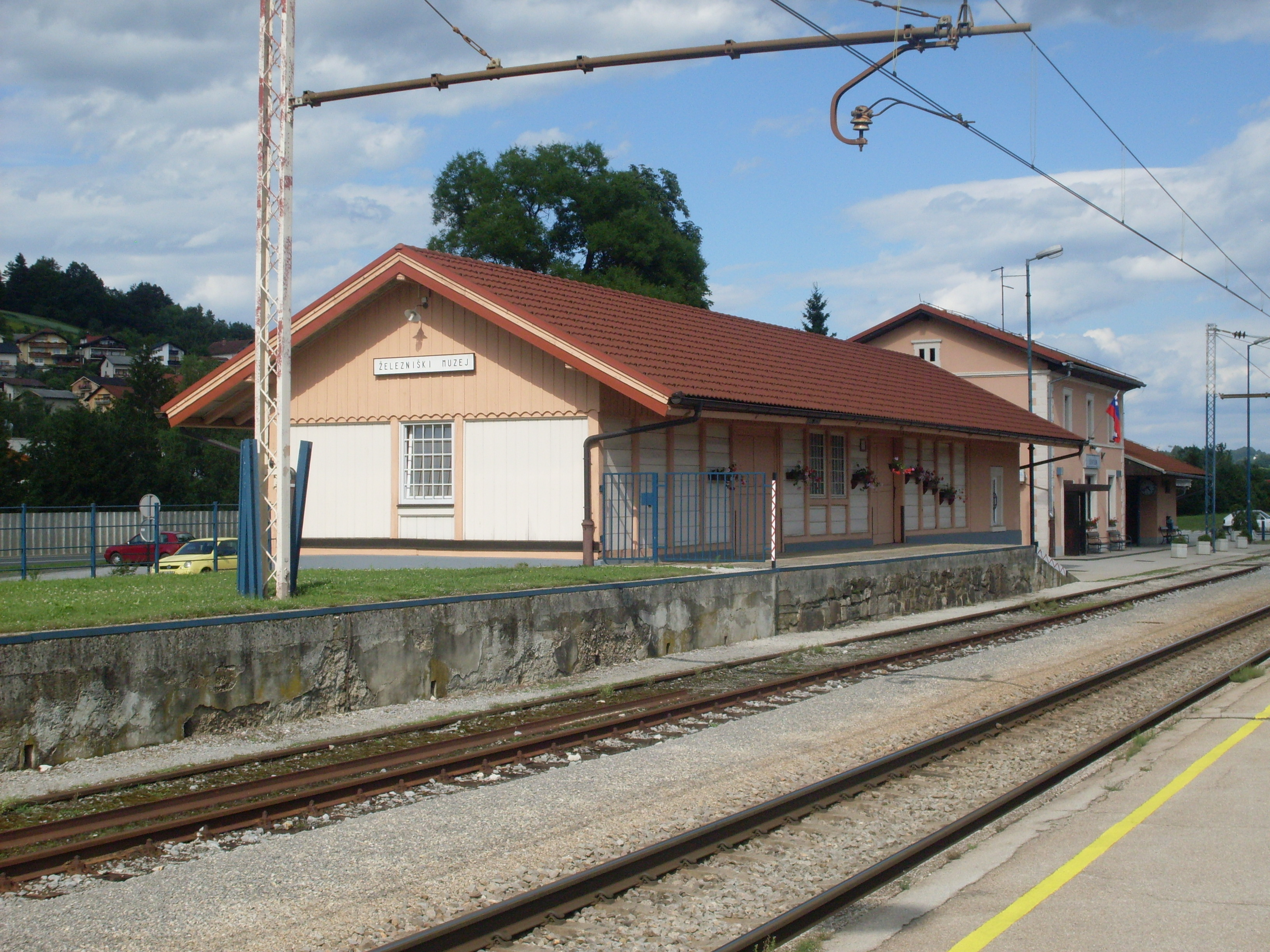 Former warehouse of the Šentjur train station, today hosting the Südbahn museum.